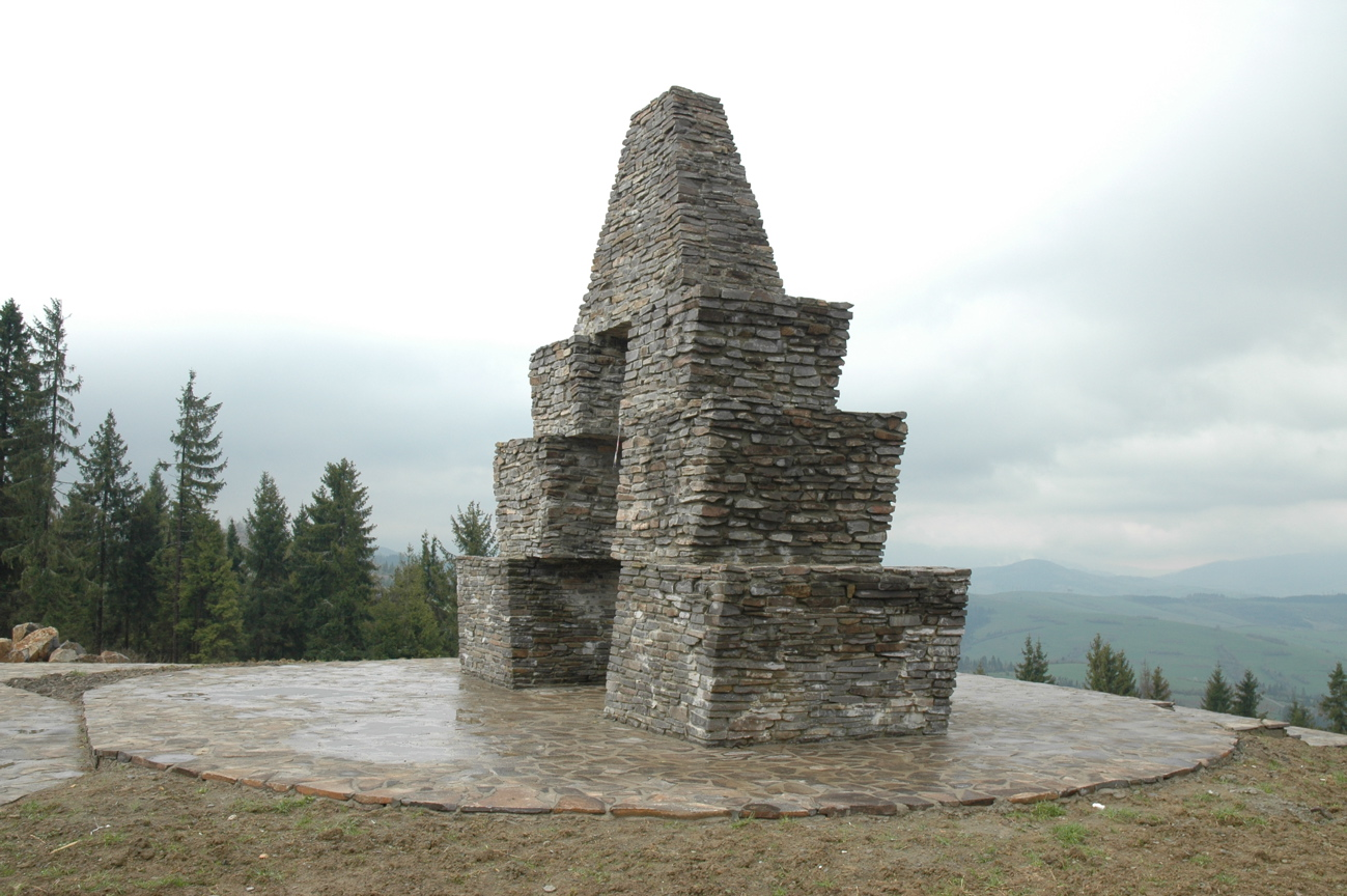 Hungarian Conquest memorial at the Verecke Pass (Transcarpathian oblast, Ukraine)